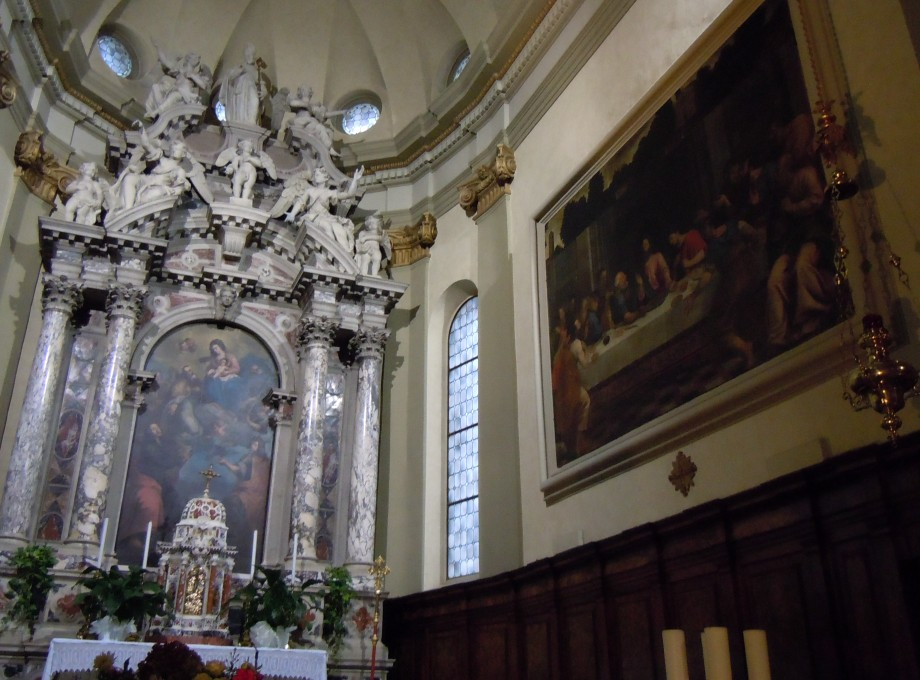 Cordignano: chiesa